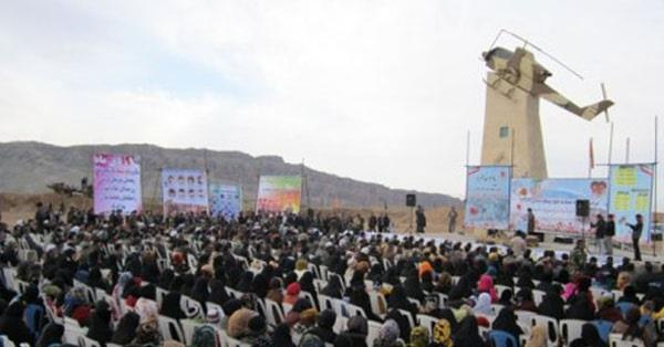 عملیات ضربت ذولفقار